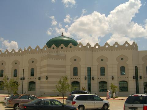 Flickr URL